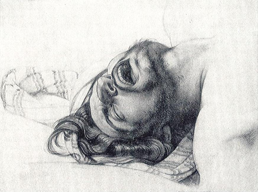 Shouting man's head (drawing for "Brazen Serpent", by Fyodor Bruni, ca 1840)